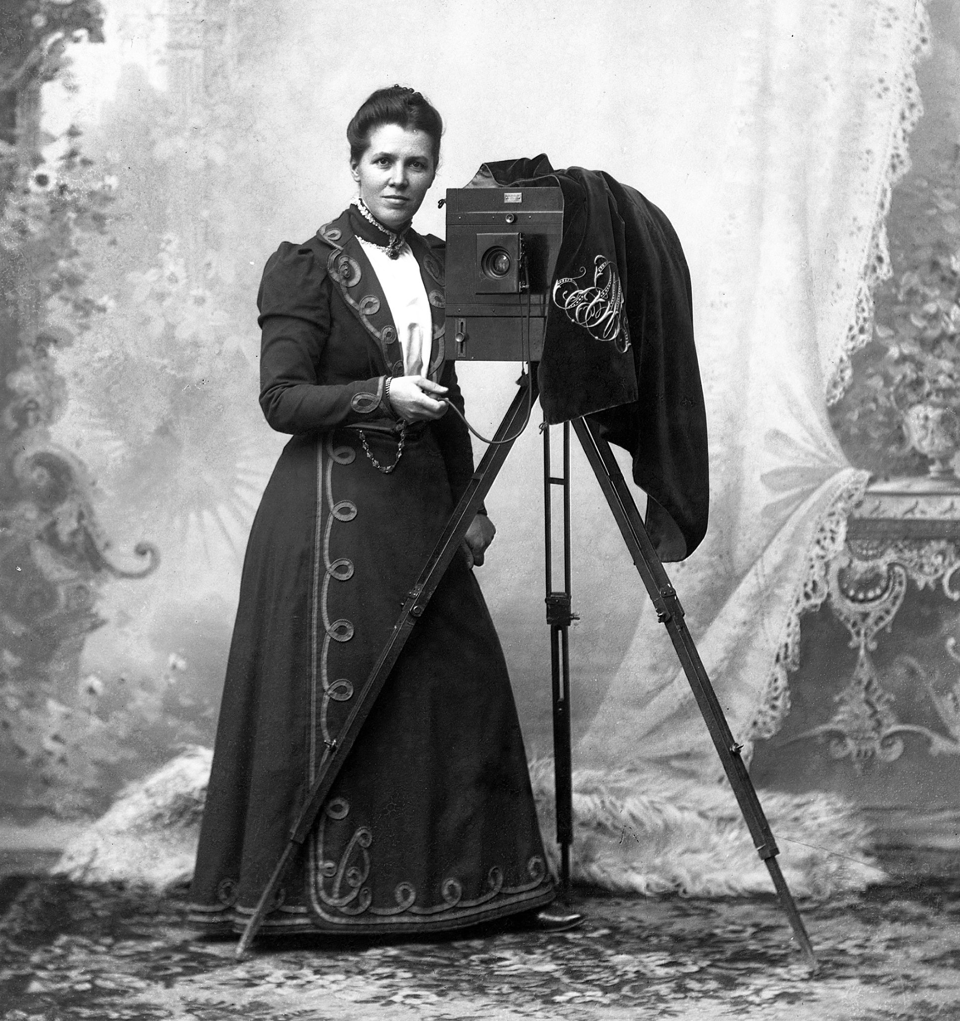 Photograph of the early Swedish Mathilda Ranch (1860-1938) in her studio at Varberg, Sweden. The photograph is in the archives of Hallands kulturhistoriska museum.